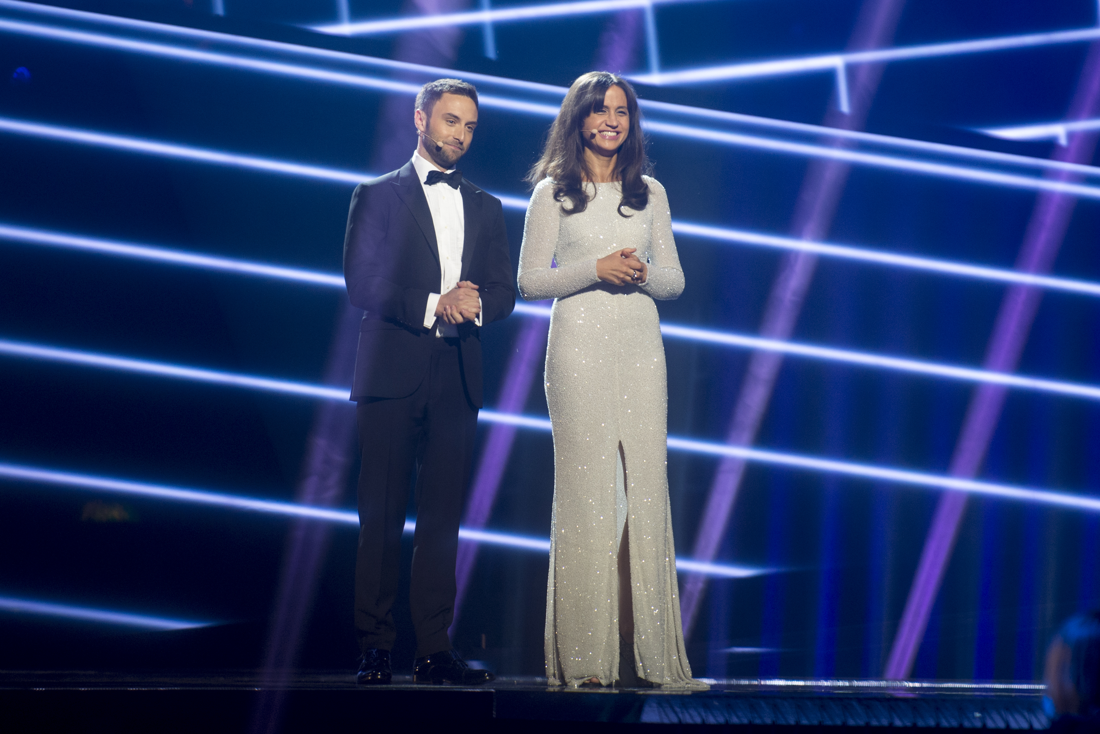 Måns Zelmerlöw & Petra Mede representing Måns Zelmerlöw & Petra Mede with the song Måns Zelmerlöw & Petra Mede during the first dress rehearsal of the first semi final of the Eurovision Song Contest 2016 in Stockholm. (Help translate this text)